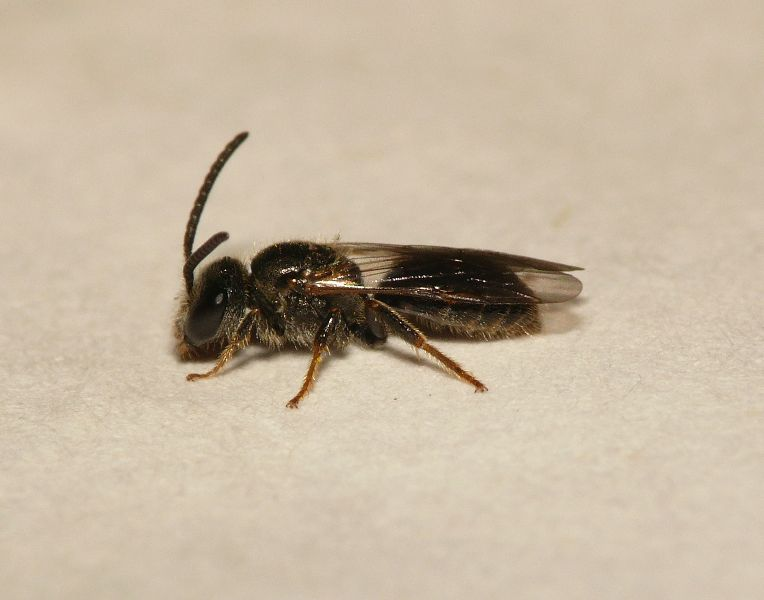 Lasioglossum sabulosum, male. Location: Rhenen - Blauwe Kamer - Gelderland (The Netherlands)